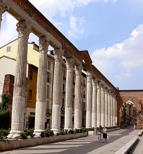 Colonne di San Lorenzo